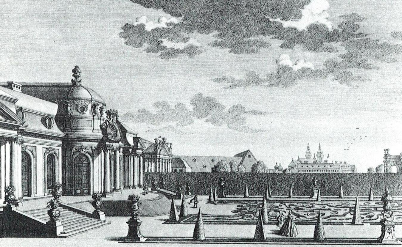 The Palais Althan in Vienna's I. district Innere Stadt (Vienna) at Ungargasse #63, garden-side.